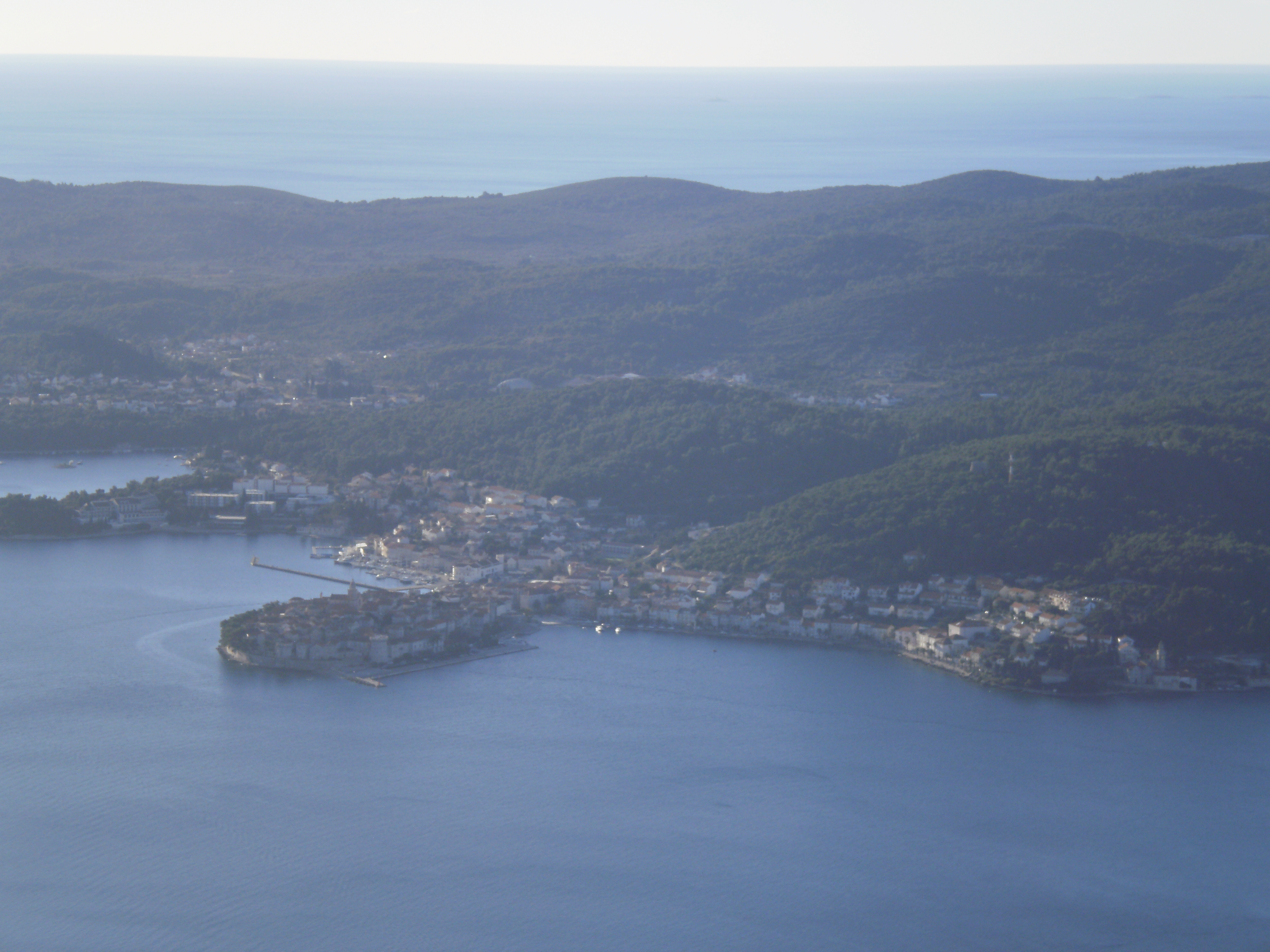 Panorama photo of Korčula